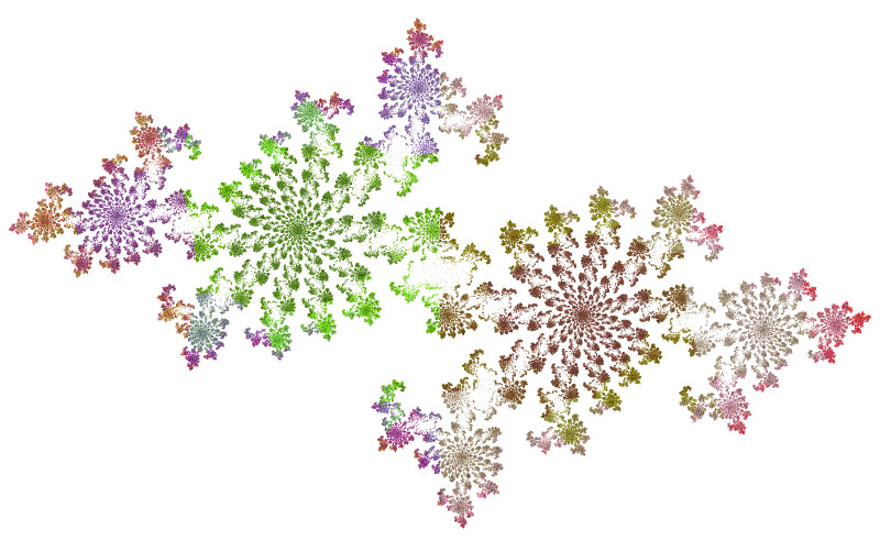 Julia set for c = ?. Made with IIM